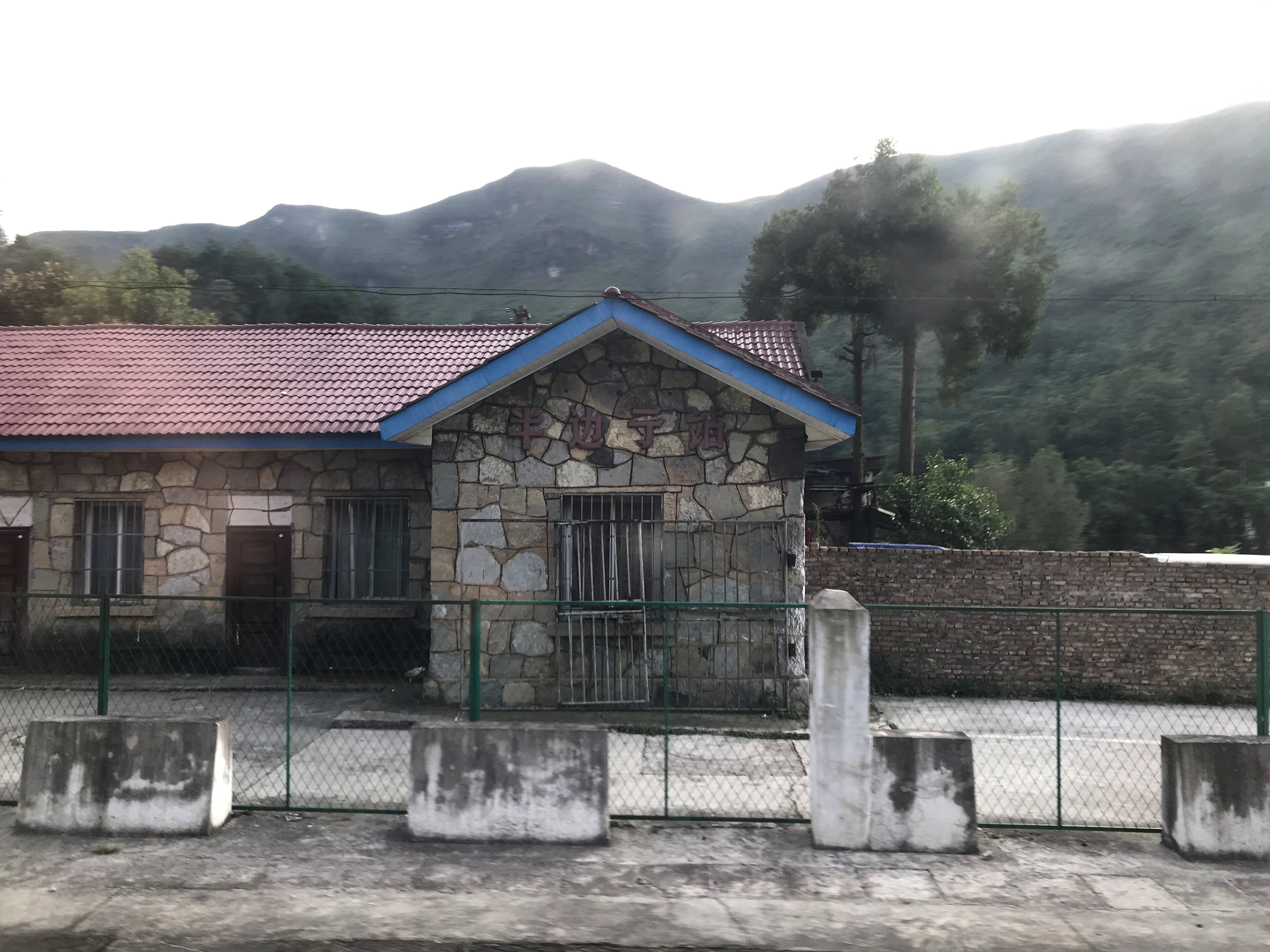 In second round of simplified Chinese characters